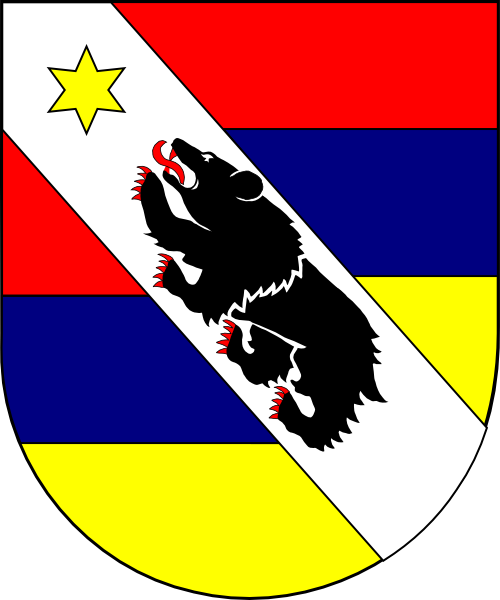 Coat of arms (shield only) of Juraj cardinal Haulik, archbishop of Zagreb (1837 - 1869).